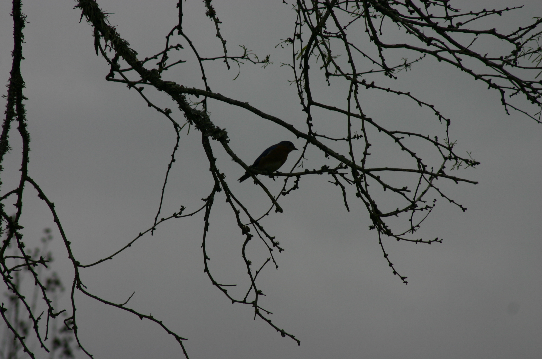 Eastern Bluebird perched on some leafless branches at twilight. (It looks even better if just the central part of the image is cropped out, removing the crowded branches on the left and upper-right corner)